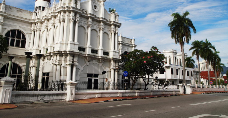 Farquhar Street in George Town, Penang